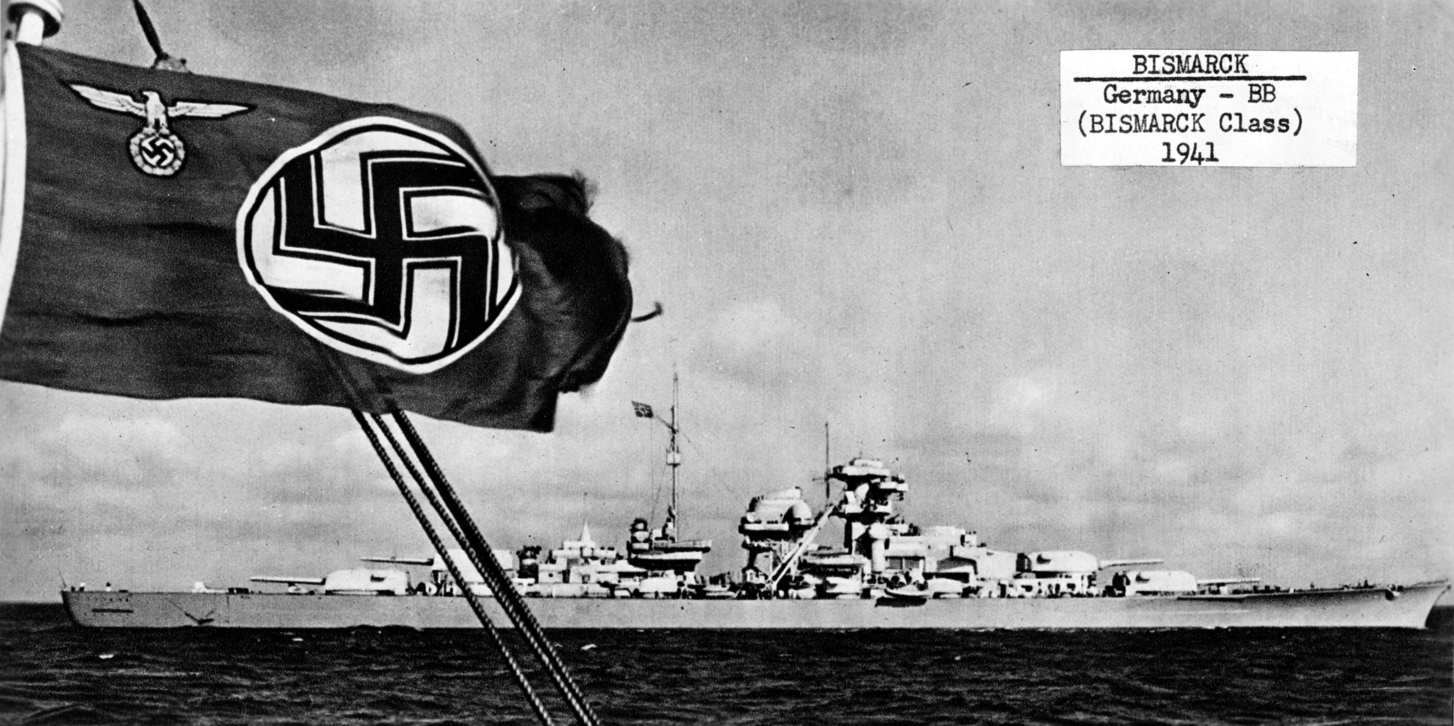 German battleship Bismarck with Nazi flag, 1941